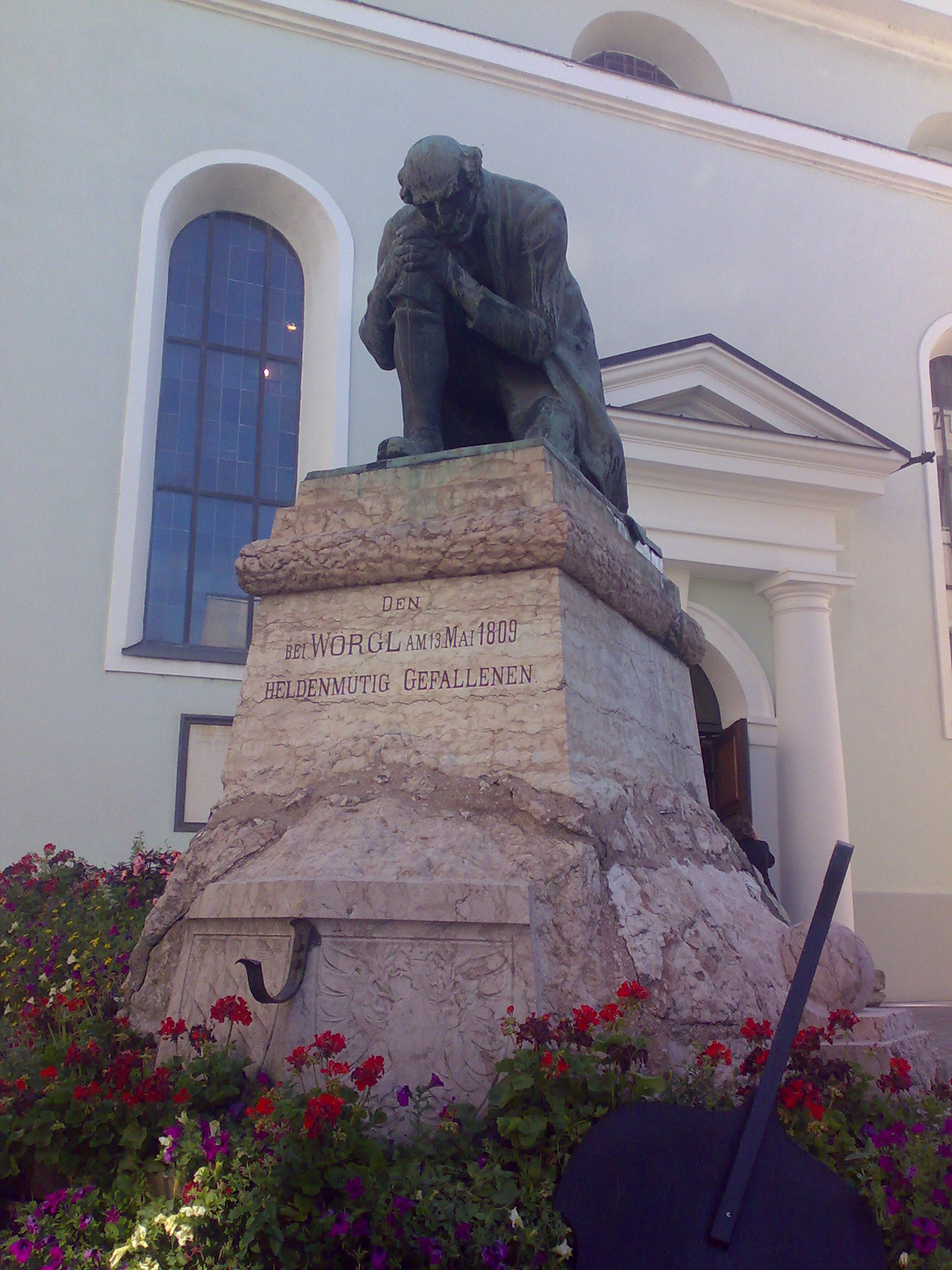 Memorial of the "Battle at Wörgl" in 1809.